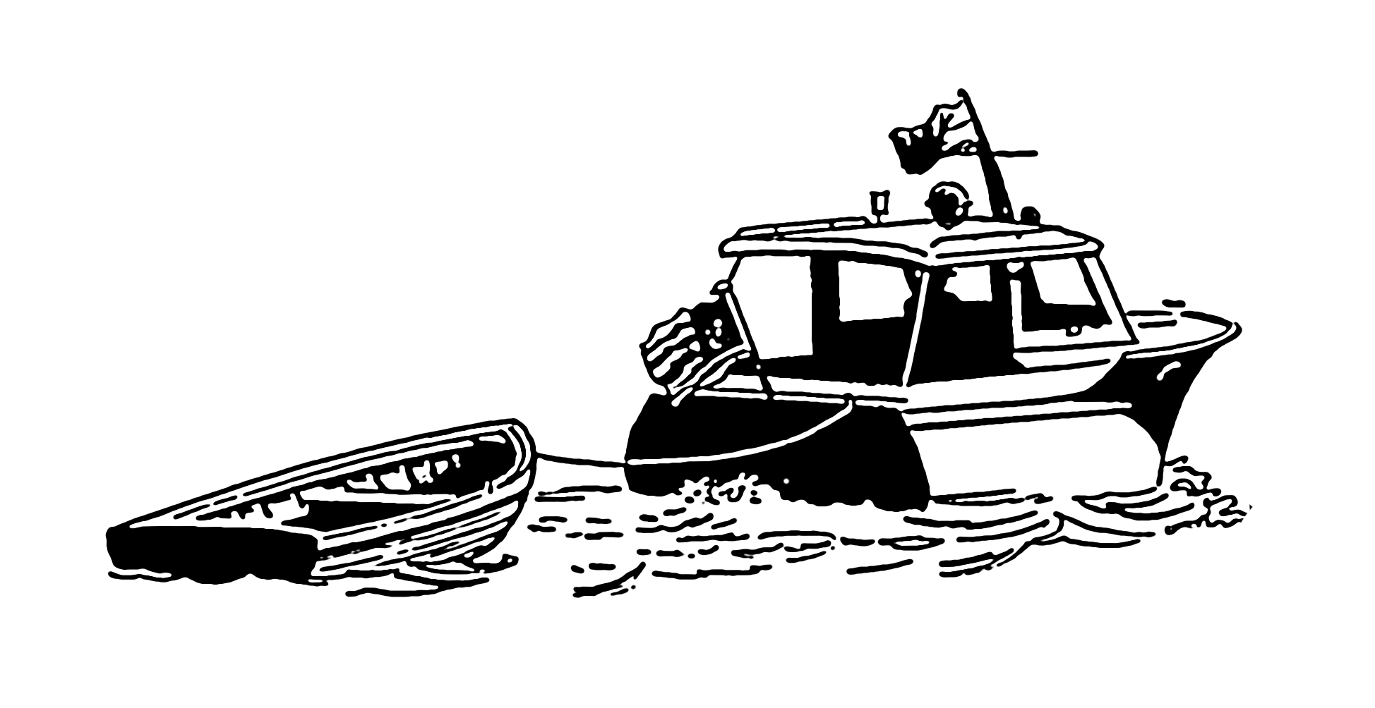 Line art drawing of a dinghy.